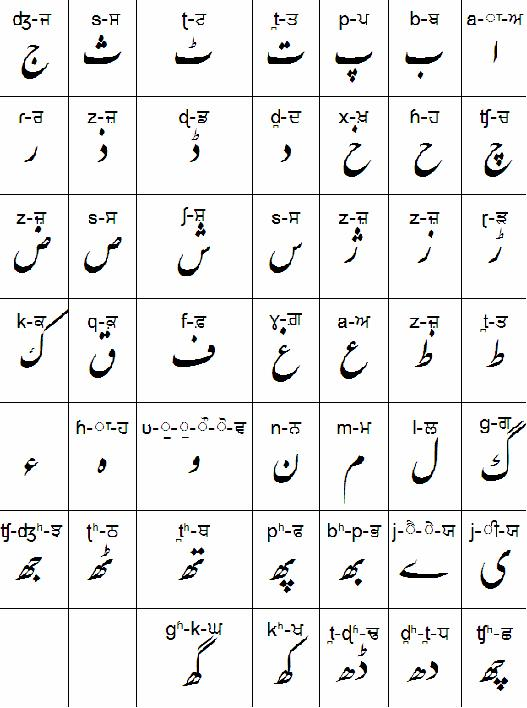 Punjabi alphabet in the Shahmukhi script, with ruby text indicating the Gurmukhi and IPA equivalents.